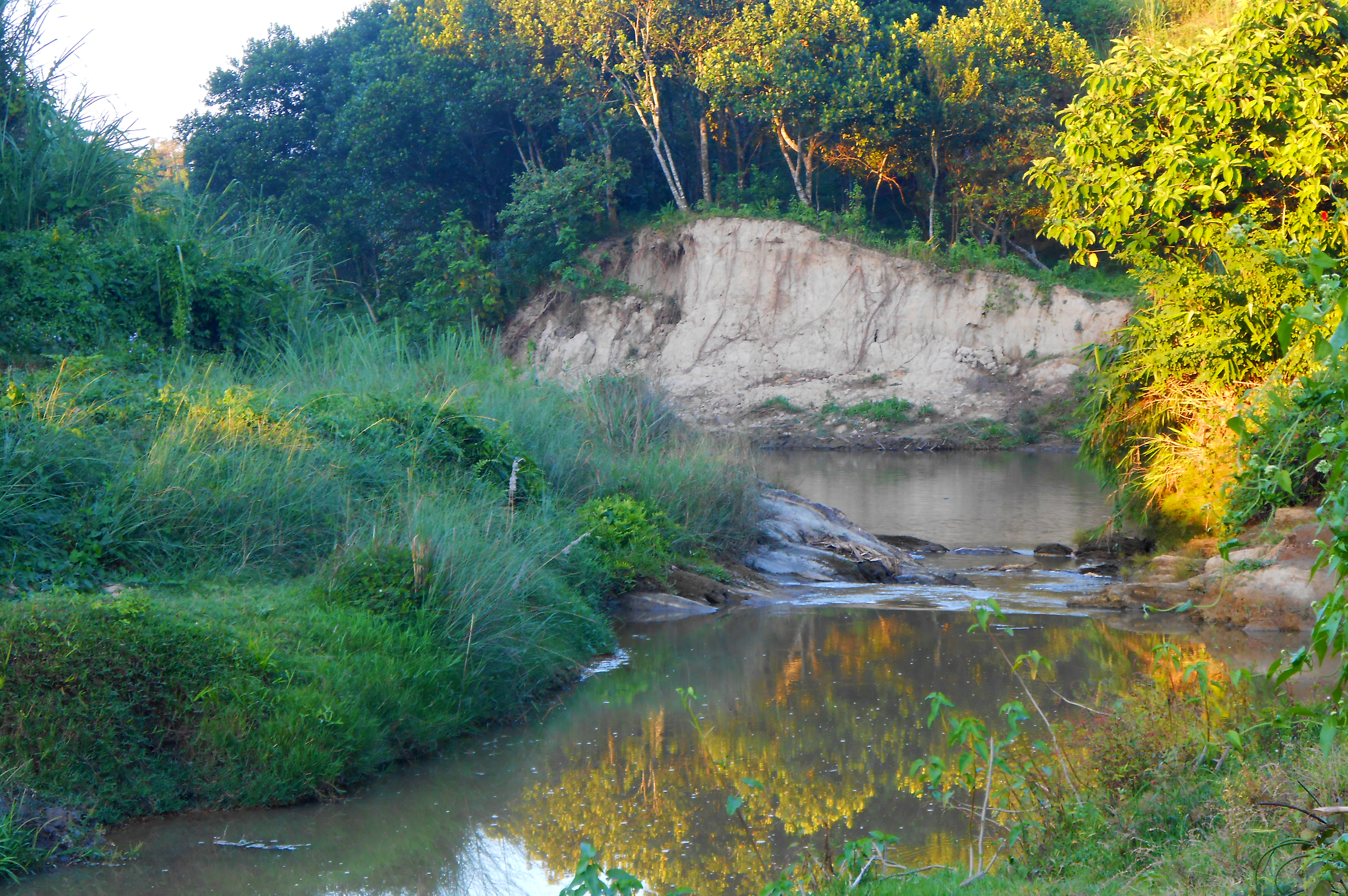 Backside view from Arts Faculty, University of Chittagong